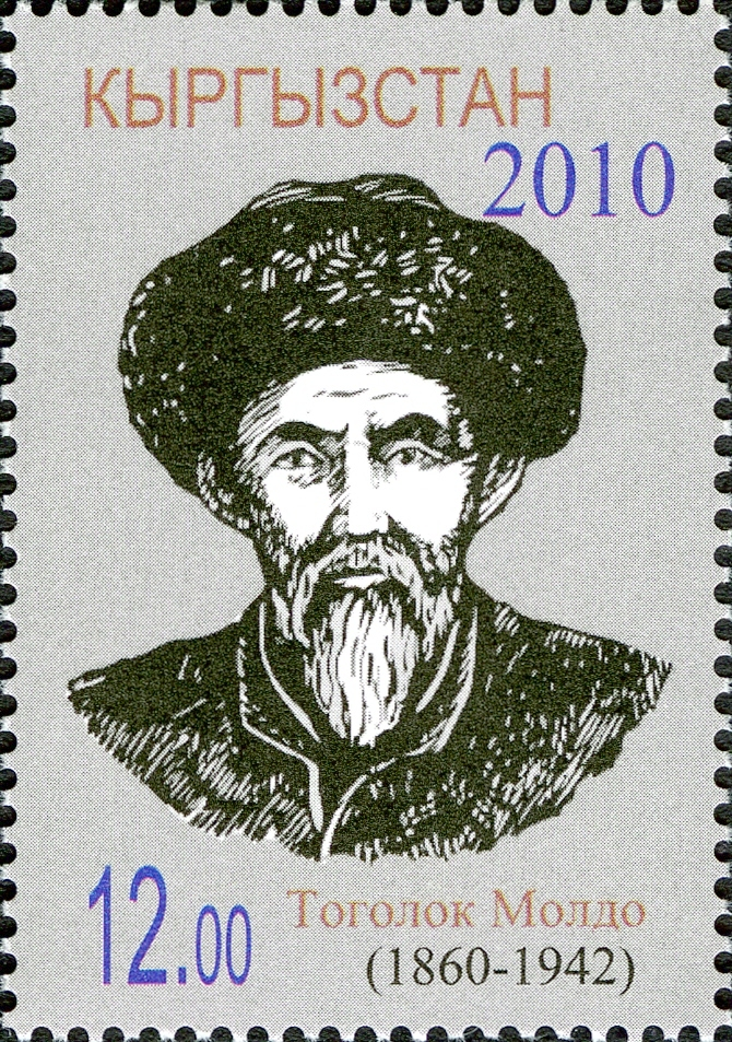 150th Birth Anniversary of Kyrgyz writer Togolok Moldo